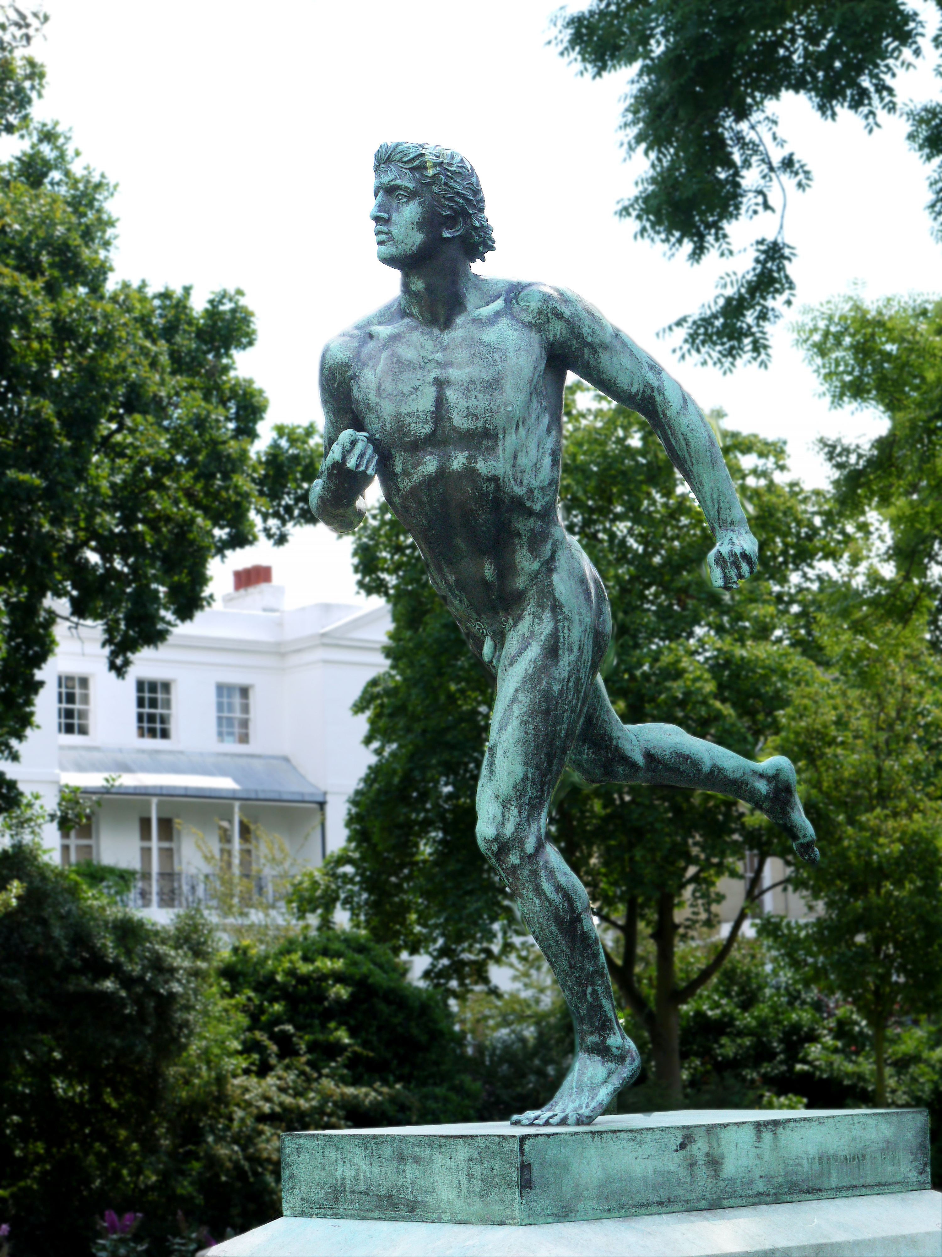 Statue of a Greek runner by Sir William Blake Richmond, in St Peter's Square, Hammersmith, London.